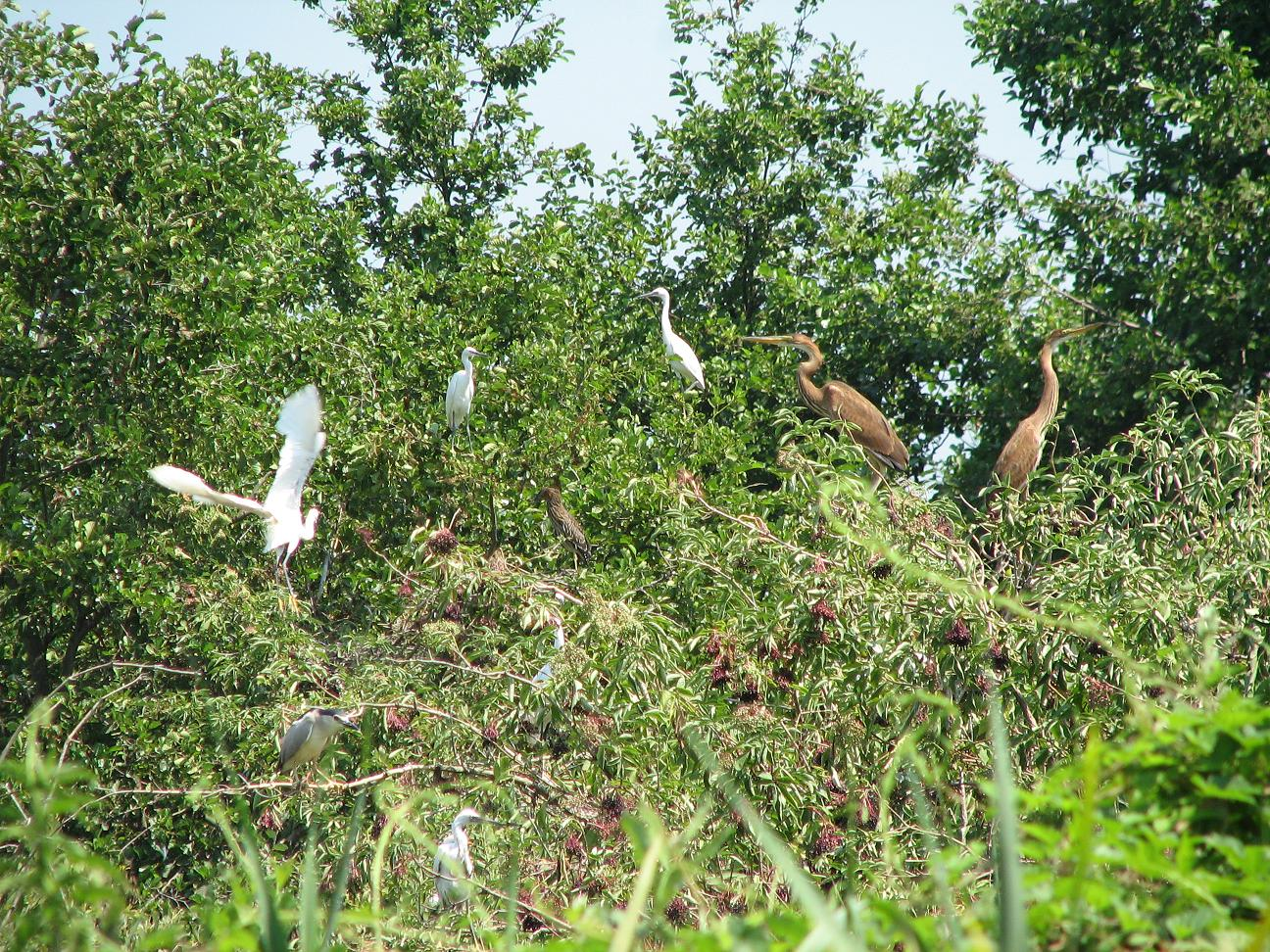 Heronry in Lomellina, Italy, with Purple Heron Ardea purpurea, Little Egret Egretta garzetta and Black-crowned Night Heron Nycticorax nycticorax inside a protected area and a SPA-Special protection area